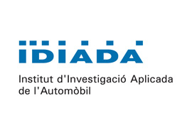 Idiada logo before its privatization